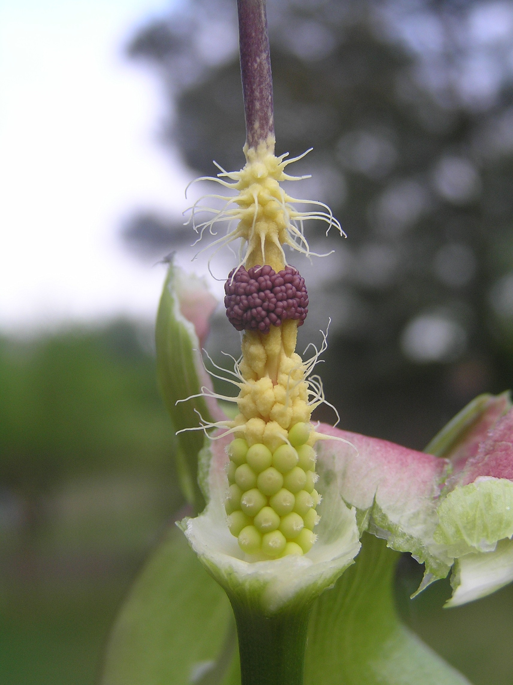 Arum cylindraceum, Břeclav, Southern Moravia, Czech Republic